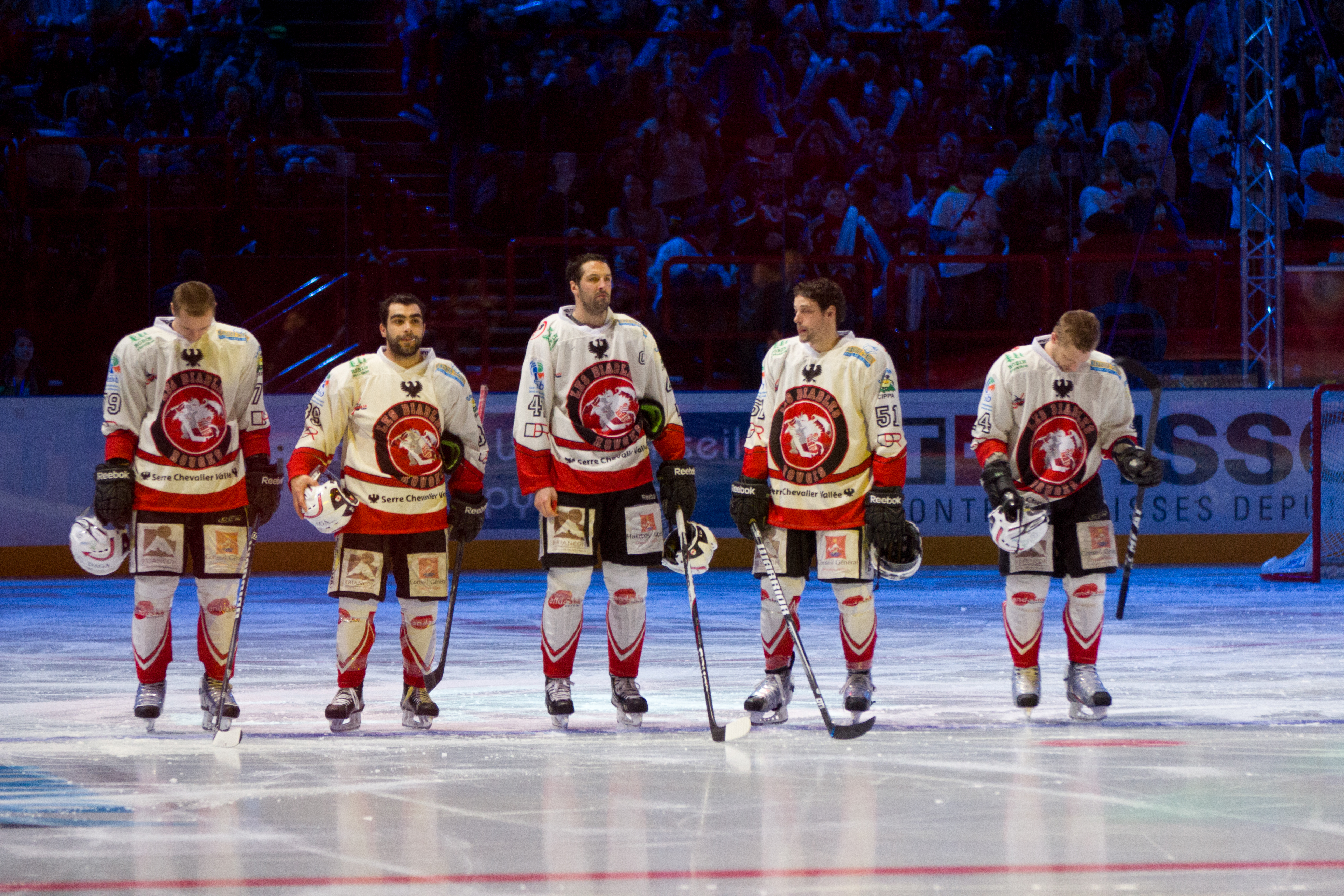 Final of the Ice Hockey French Cup 2013. The Diables rouges de Briançon men's hockey team lines up on the ice for the playing of the national anthem.